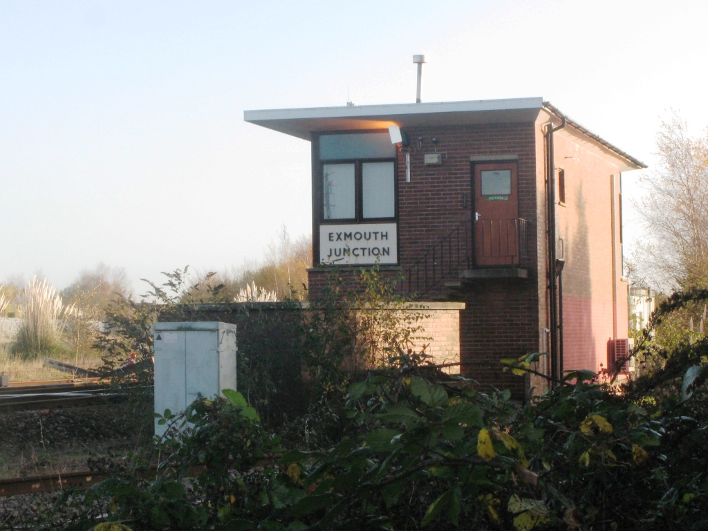 Exmouth Junction signal box in Exeter, Devon, England. This was built in 1959. The line nearest the camera is the branch to Exmouth; the tracks behind the signal box are the West of England Line from London Waterloo.